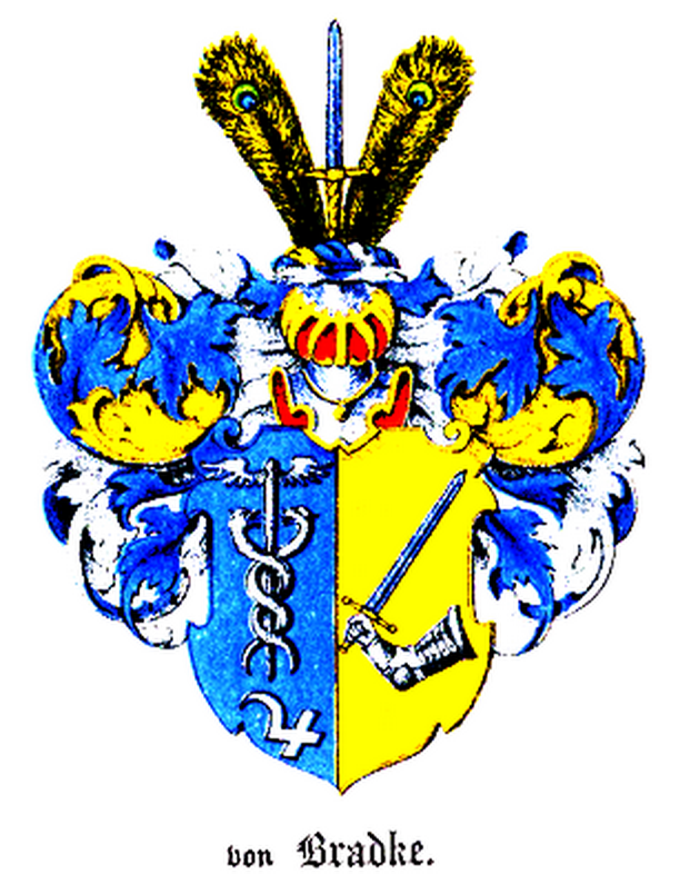 Coat of arms of Bradke family